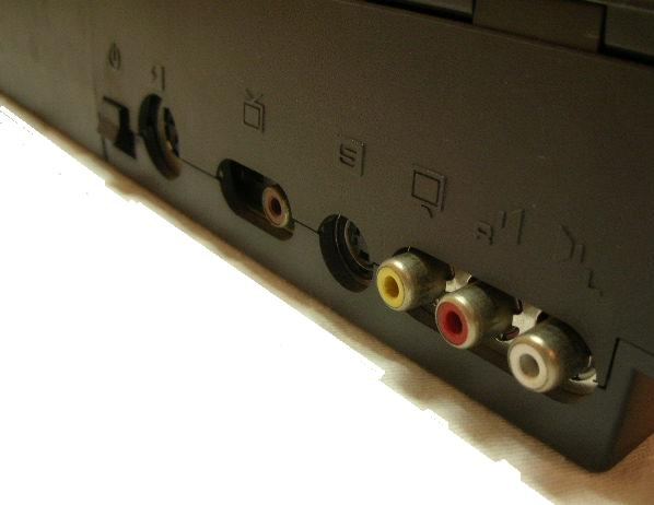 Ports on the Amiga CD32